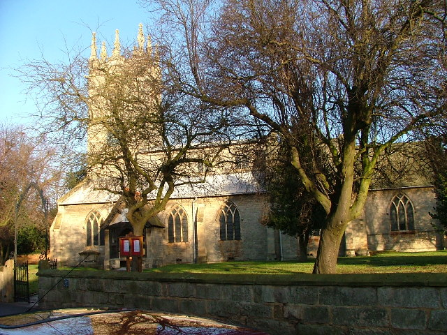 St Peters Church Clayworth Notts